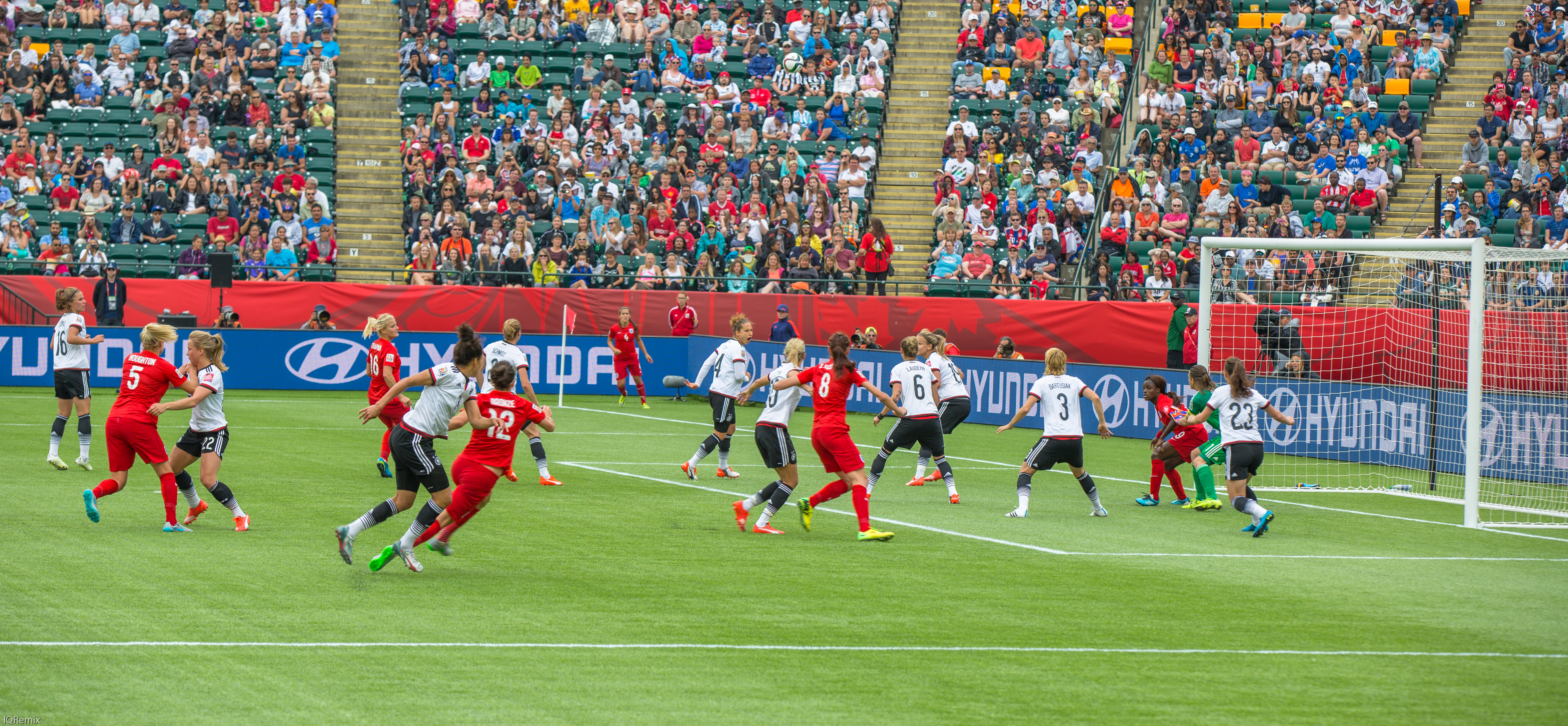 FIFA Women's World Cup Canada 2015 - Edmonton